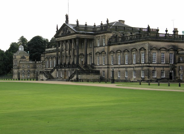 Wentworth Woodhouse Home of the Earls Fitzwilliam. Facade blackened by smoke from factories during the industrial revolution. Wentworth lies on the Barnsley coal seam, mined by the Earls on their land and making them one of the richest British families in the 1900s. The wealth of the Fitzwilliam family is now managed by a trust, the last Earl left no heirs.